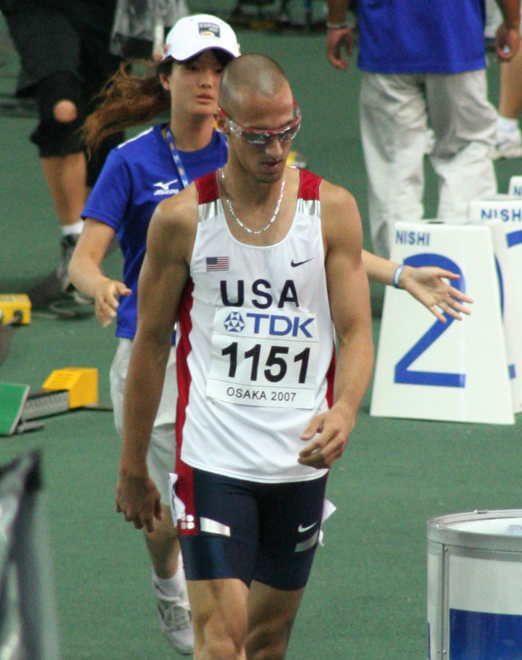 World Athletics Championships 2007 in Osaka - US 400 metres runner Jeremy Wariner